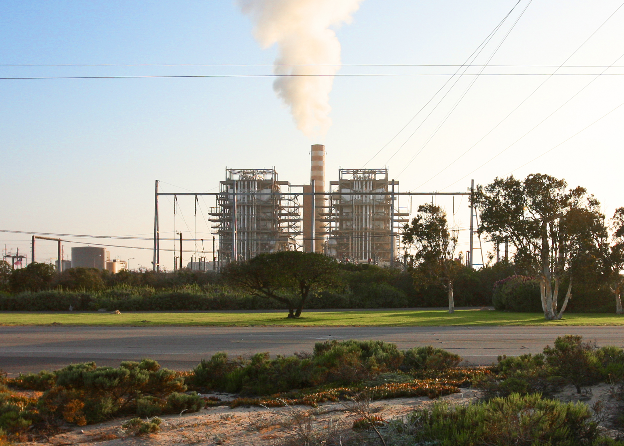 Mandalay natural gas-fired power plant in Oxnard, California, United States